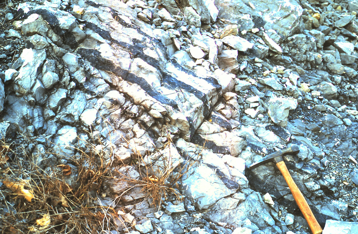 Outcrop of the Devonian Corriganville-New Creek limestone, showing chert (dark bands). Located at U.S. Route 30 (Everett Bypass) roadcut through Warrior Ridge, Bedford County, Pennsylvania. Taken March 2002. See also: Bedford-co-rt30-warrior.jpg